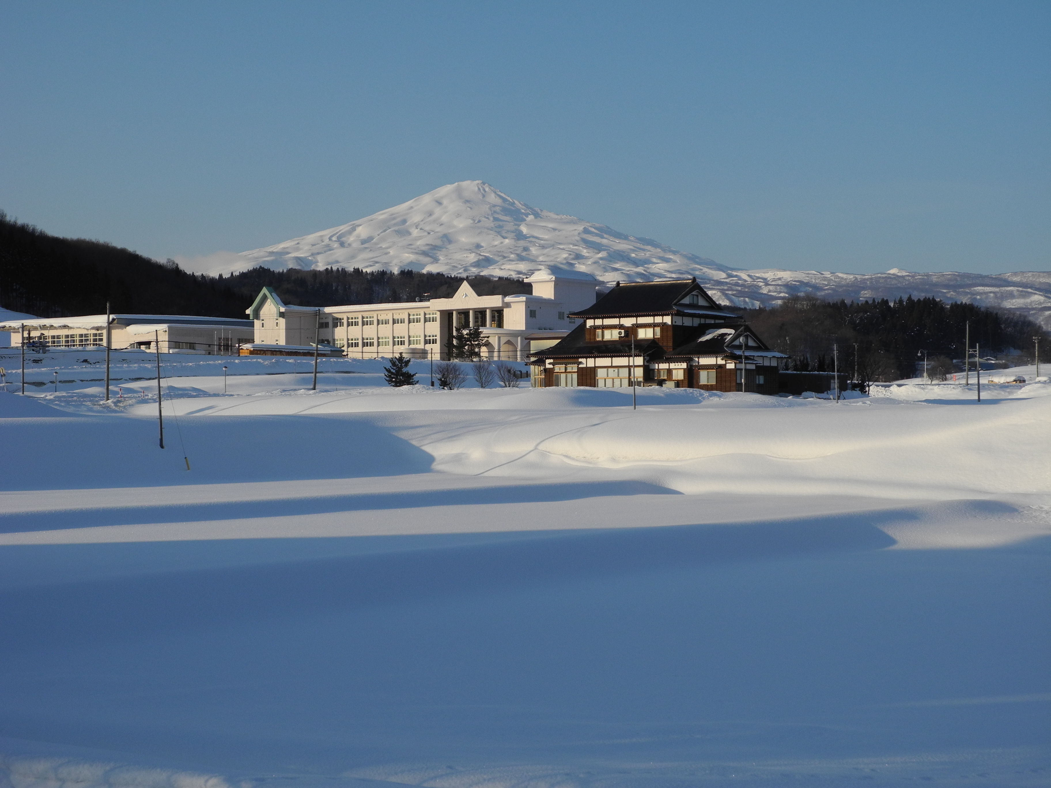 Mt. Chokai and Chokai Junior High School in winter. Kawauchi, Chokai, Yurihonjo, Akita, Japan.